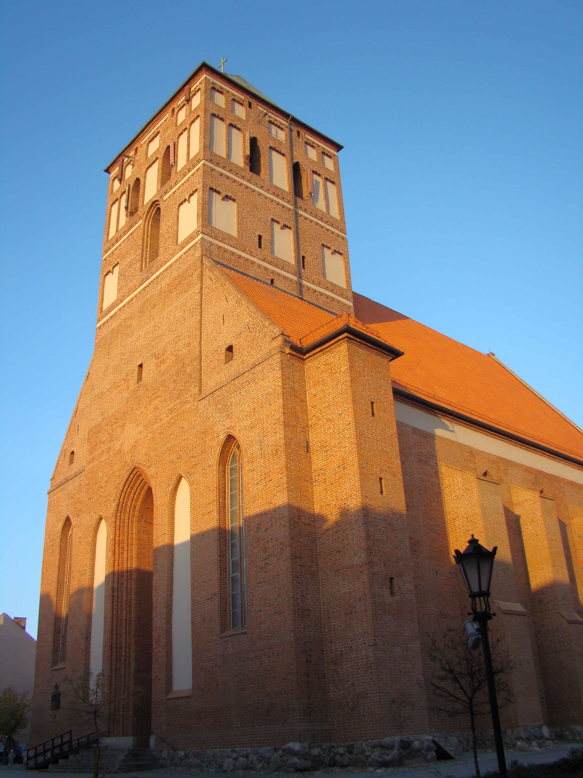 Minor Basilica dedicated to Saint John the Baptist in Chojnice